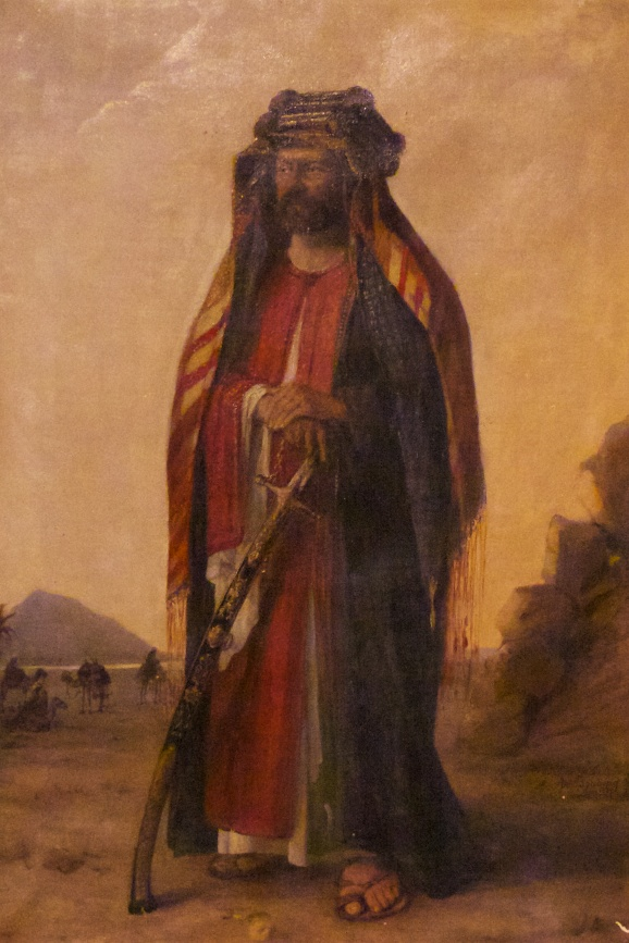 Julius Euting in Beduin costume